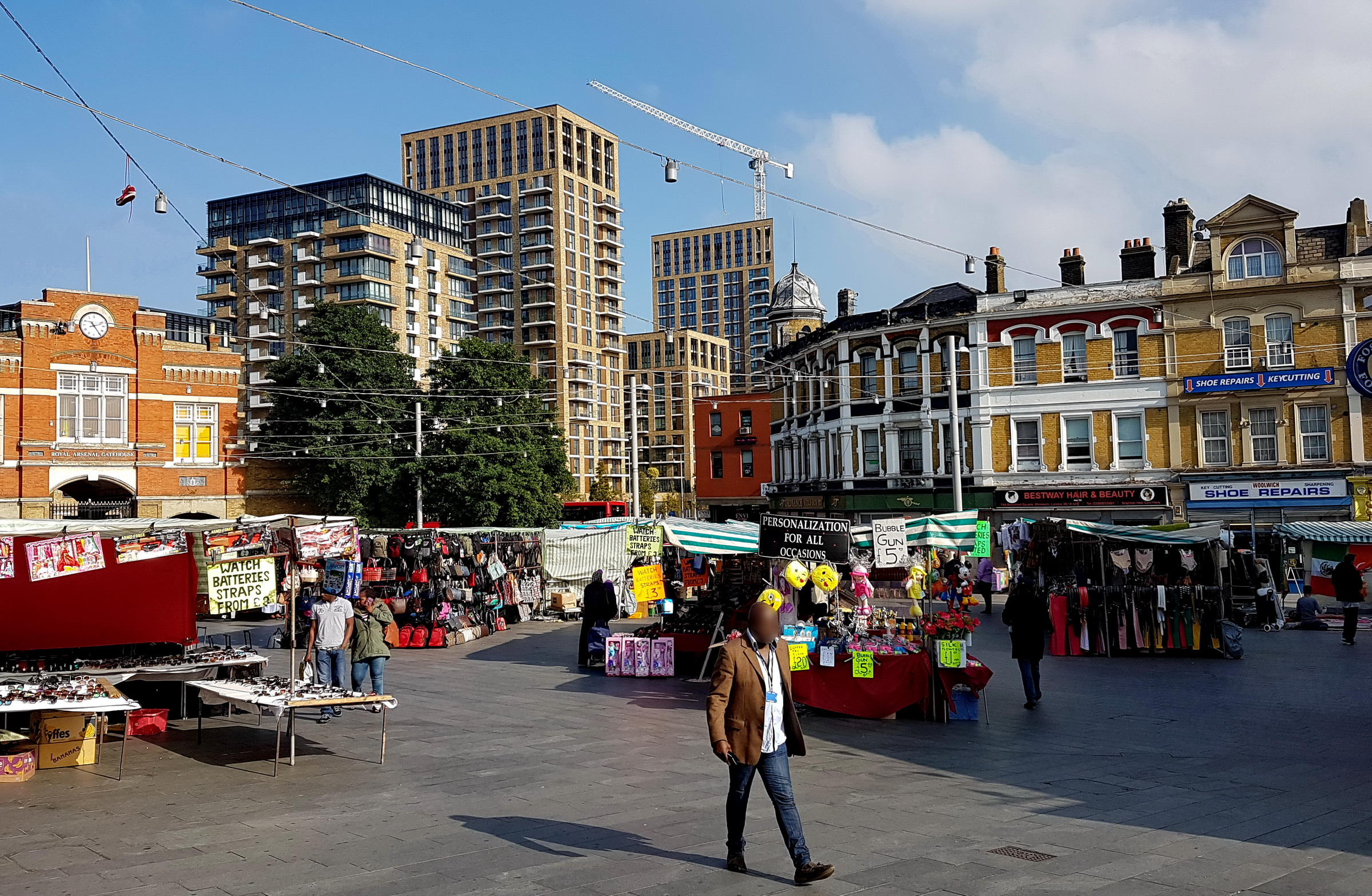 View of the market at Beresford Square in the centre of Woolwich, South East London, UK. To the left: Beresford Gate, the former main gate to the Royal Arsenal. Background: Crossrail & Cannon Square development.